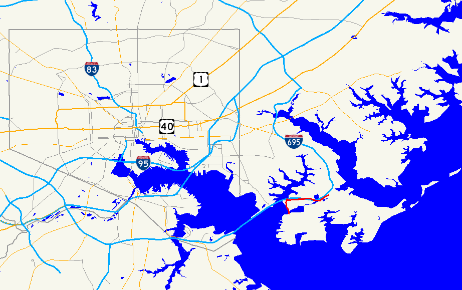 Map of Maryland Route 158